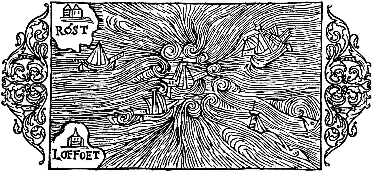 The dangerous Maelstrom is according to Olaus Magnus located between the islands of Röst and Lofoten at the Norwegian coast. Note that Röst in reality is situated south of Lofoten.